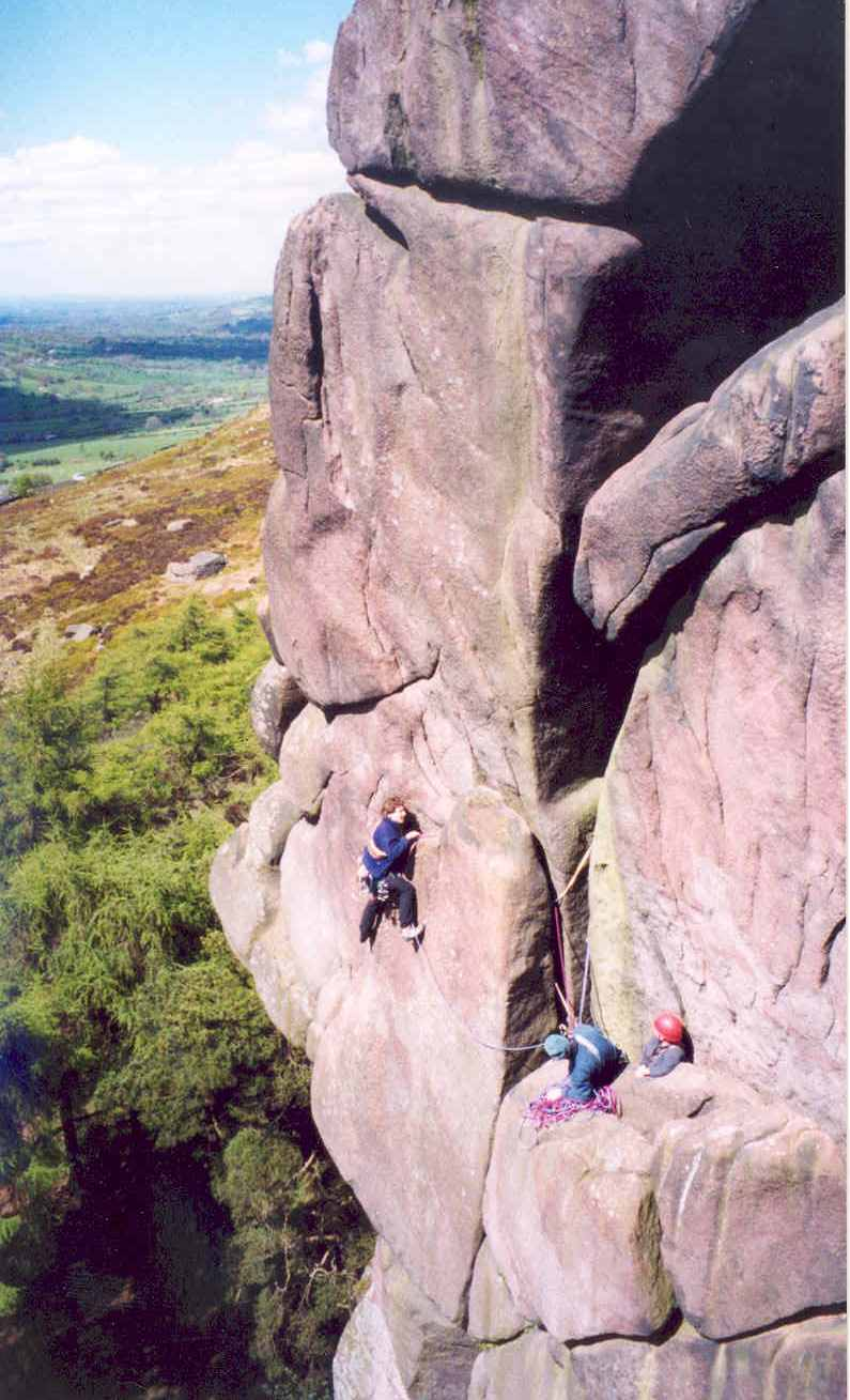 Climbers on "Valkyrie" at The Roaches in Staffordshire, United Kingdom, in May 2002